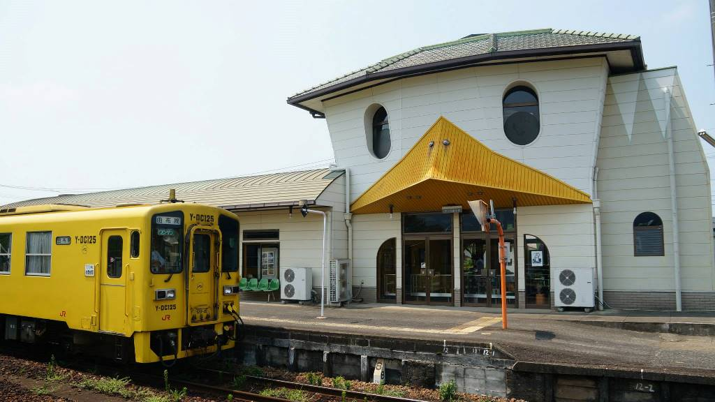 Tanushimaru train station is shaped like a Kappa